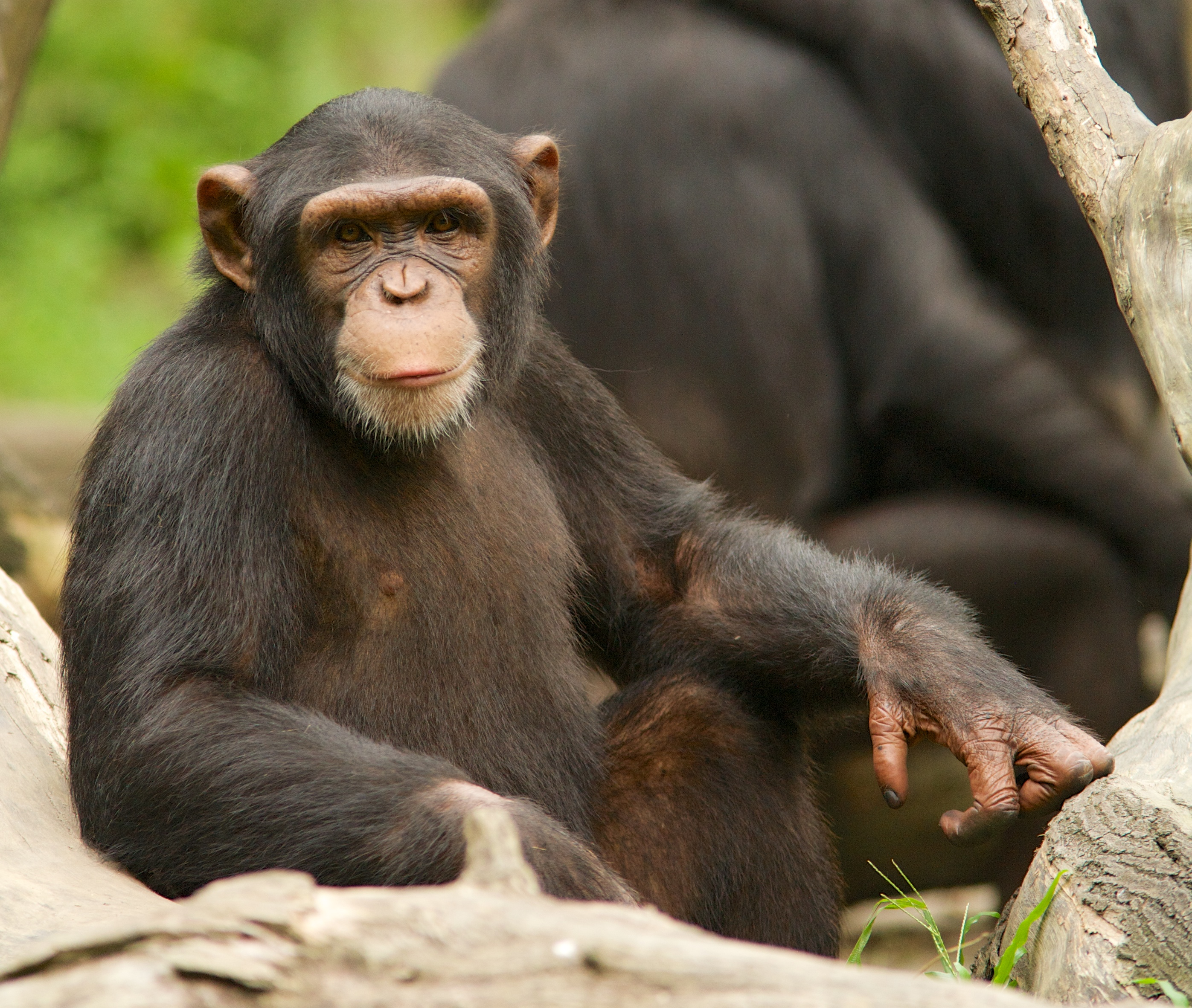 chimpanzee Needs additional description